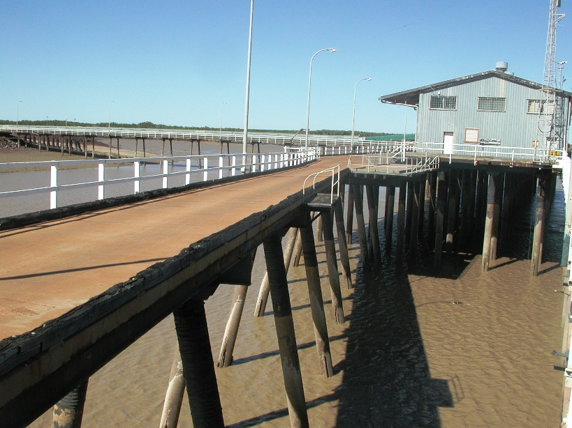 Author: PeterWH; wharf at Derby on King Sound, July 2006 Category:Images of Western Australia